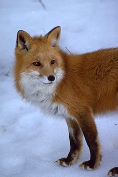 Rare Sierra Nevada red fox on Sept. 12, 2010.